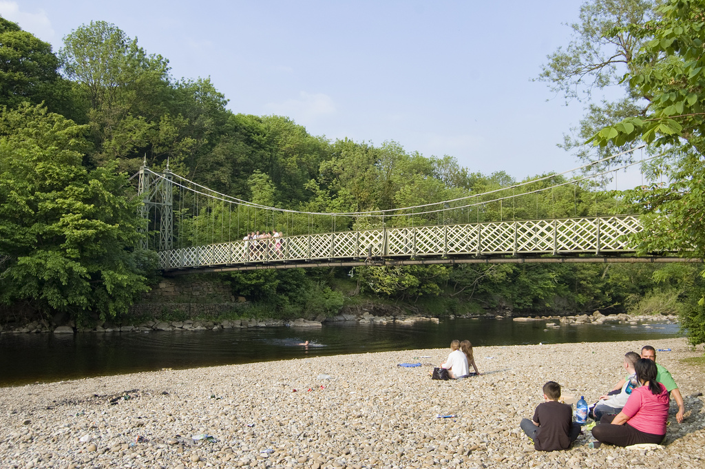 Teens relax in late afternoon sunshine on a smooth pebbled beach; watching their testosterone-fuelled peers leap from an old suspension bridge over the Wharfe. A copy of this file can be found online in its original resolution at this address.